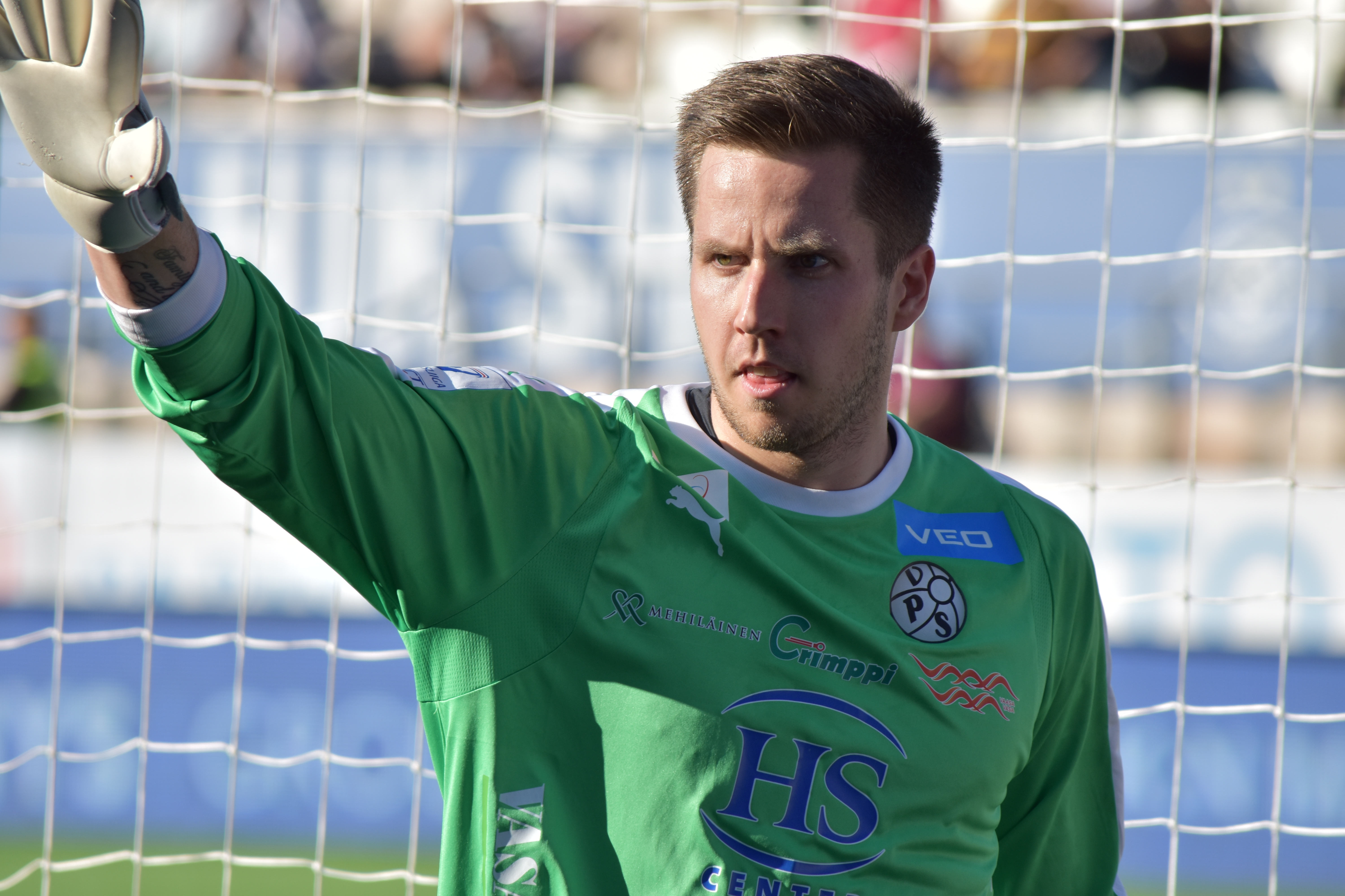 Assocation football goalkeeper Marko Meerits (VPS)